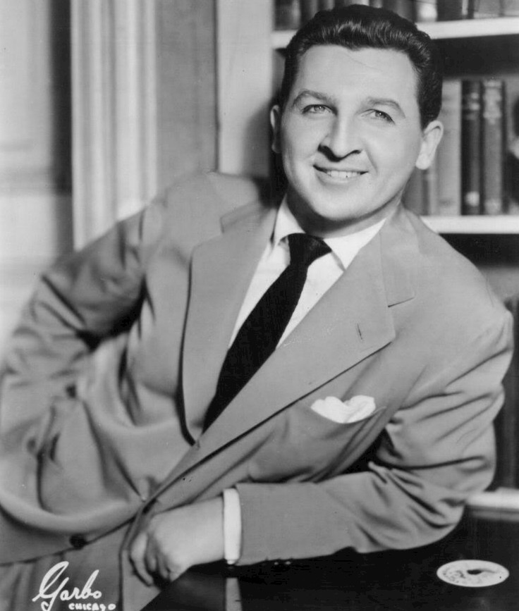 Publicity photo of actor Eddie Bracken.